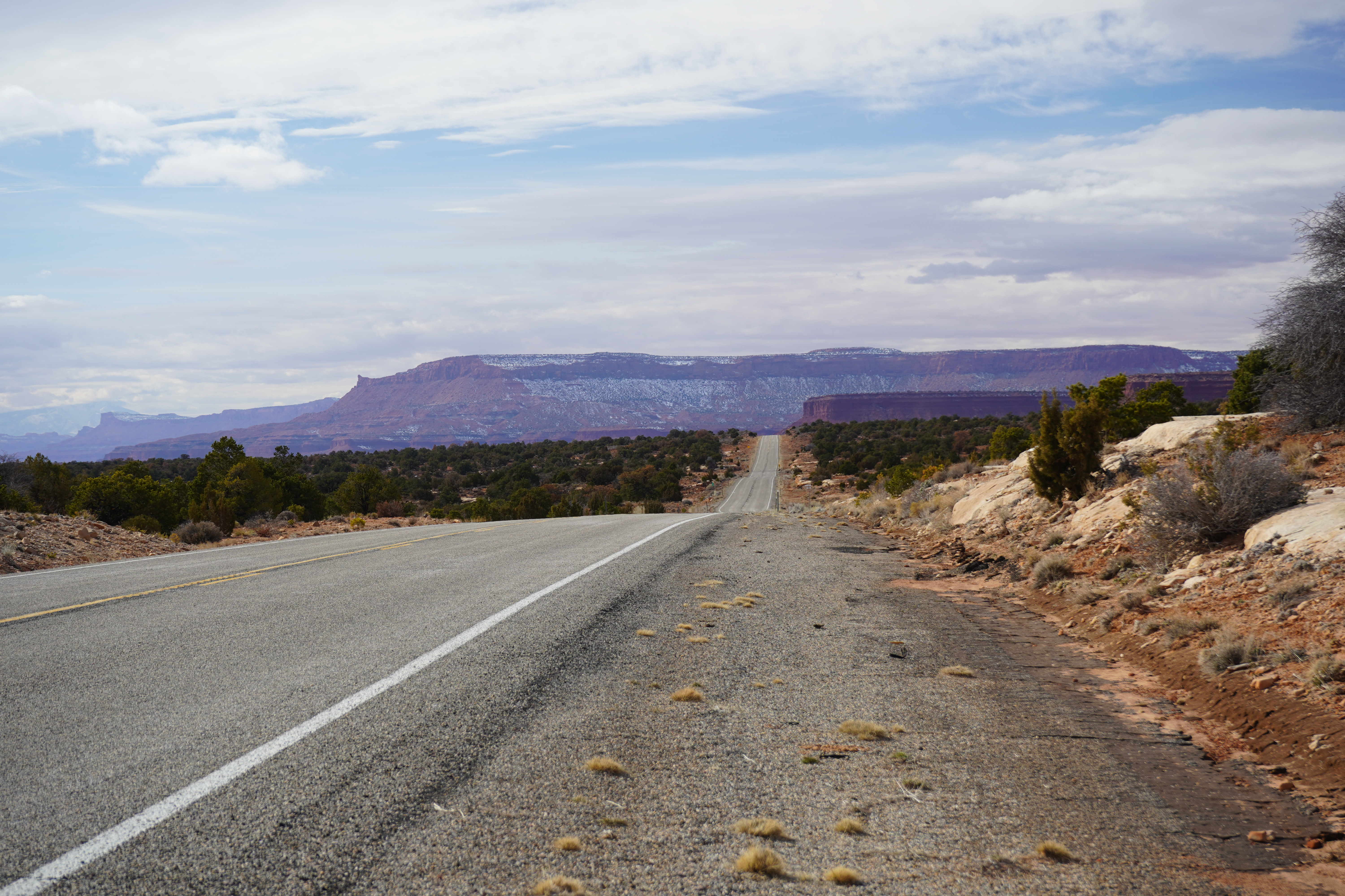 The photograph shows a view to the west of the eastern segment of Utah State Route 276. Point of view is approximately 7 km west of the eastern terminus of Utah State Route 276 (a junction with Utah State Route 95). Photograph taken on 2019-02-02T20:13:16Z.